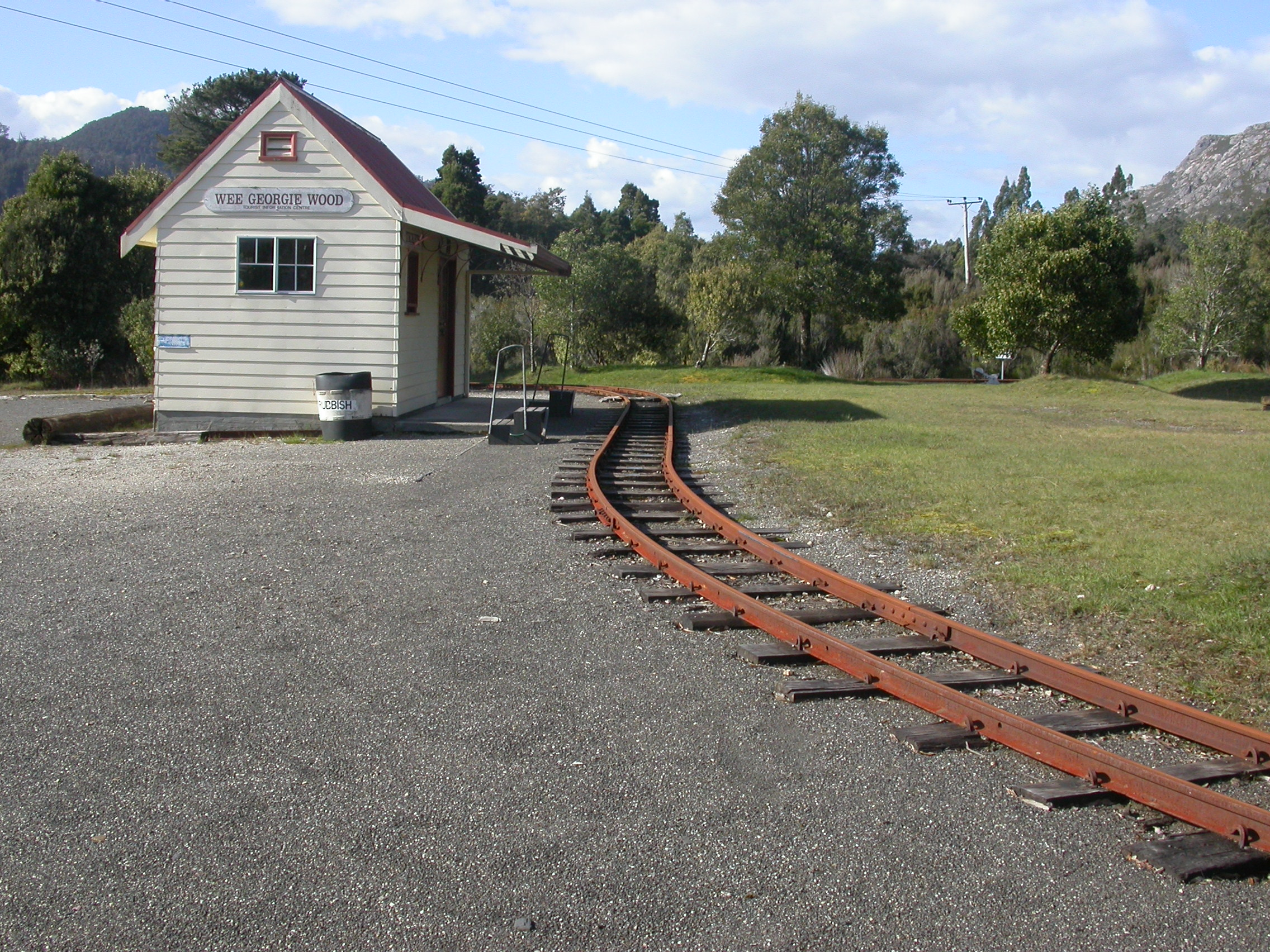 Wee Georgie Wood Railway station, Tullah, Australia. Photo taken October 11, 2012.